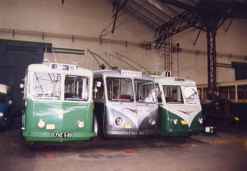 Three Vétra trolleybuses at the Musée des transports urbains, interurbains et ruraux (the AMTUIR collection), in Paris. From left to right: St. Etienne 65, a 1951 VCR; Limoges 10, a 1943 CB60; and Poitiers 21, a 1939 CS55.